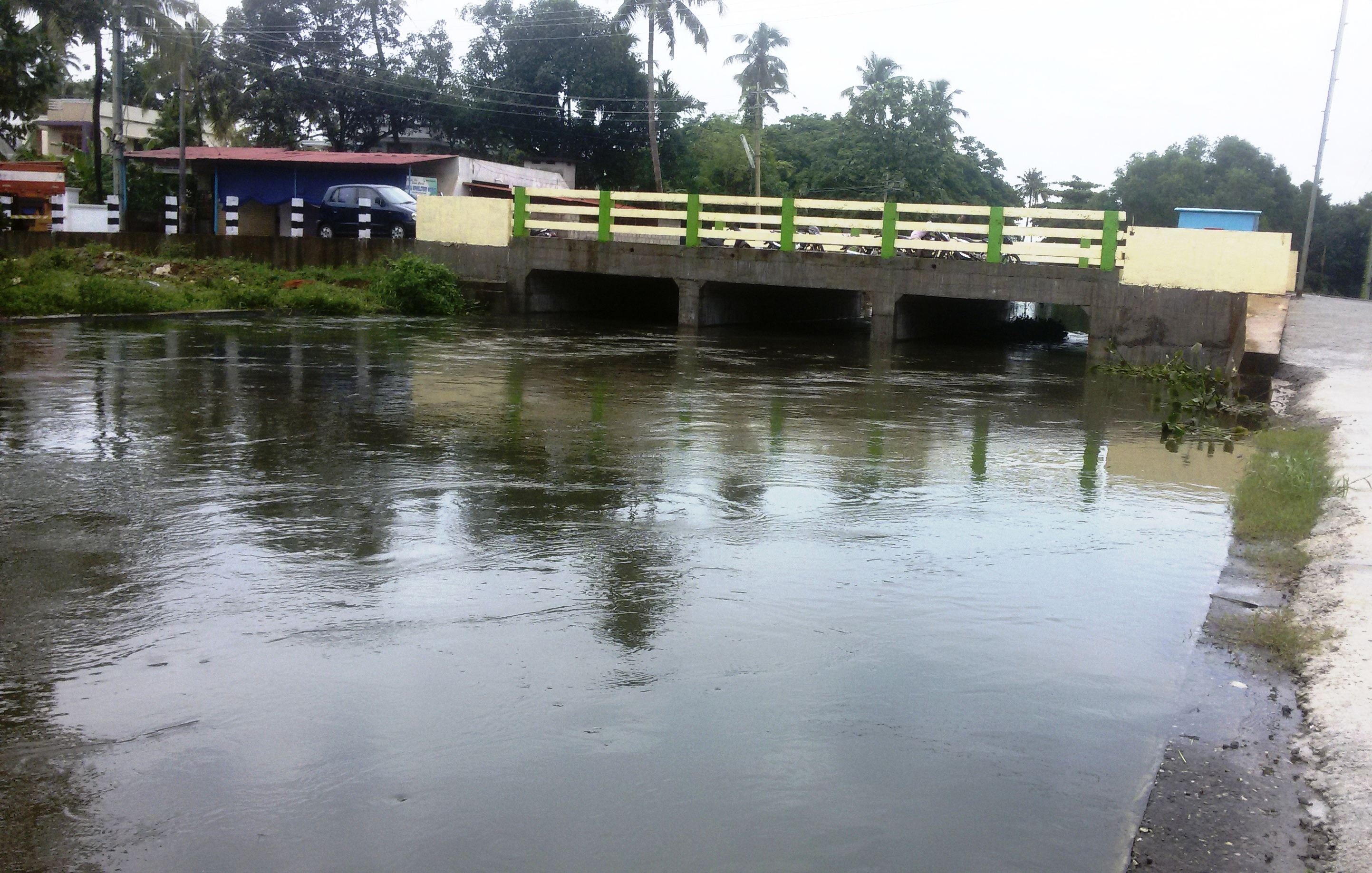 Choorankal Punthalathazham bridge